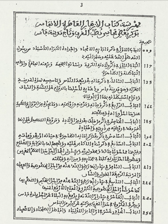 Table of contents of "al- Azhār al-ʻāṭirat al-anfās bi-dhikr baʻḍ maḥāshin quṭb al-Maghrib wa-tāj madīnat Fās" Printed by al-Maṭbaʻah al-Jadīdah 1896/1897 (1314 H.) Kattānī, Muḥammad ibn Jaʻfar